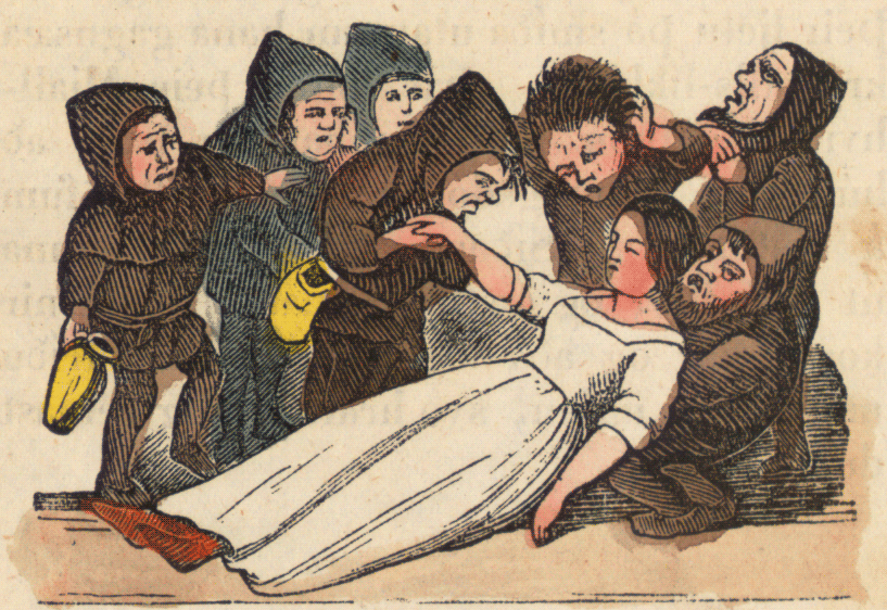 An illustration from page 25 of Mjallhvít (Snow White) from an 1852 icelandic translation of the Grimm-version fairytale.